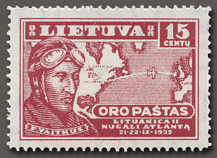 Transatlantic flight of the "Lituanica II". portrait. Mi 405